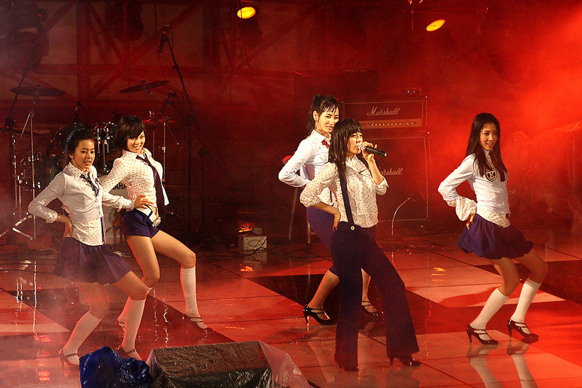 The Wonder Girls at the Daedongje, Hanyang University Festival.